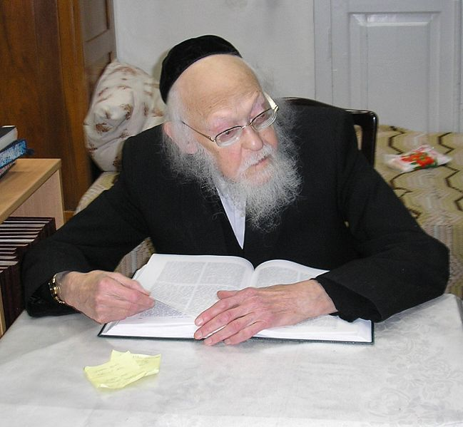 Rabbi Yosef Sholom Eliashiv